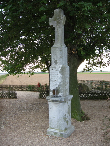 The Hubertuskreuz in Linnich (Germany)